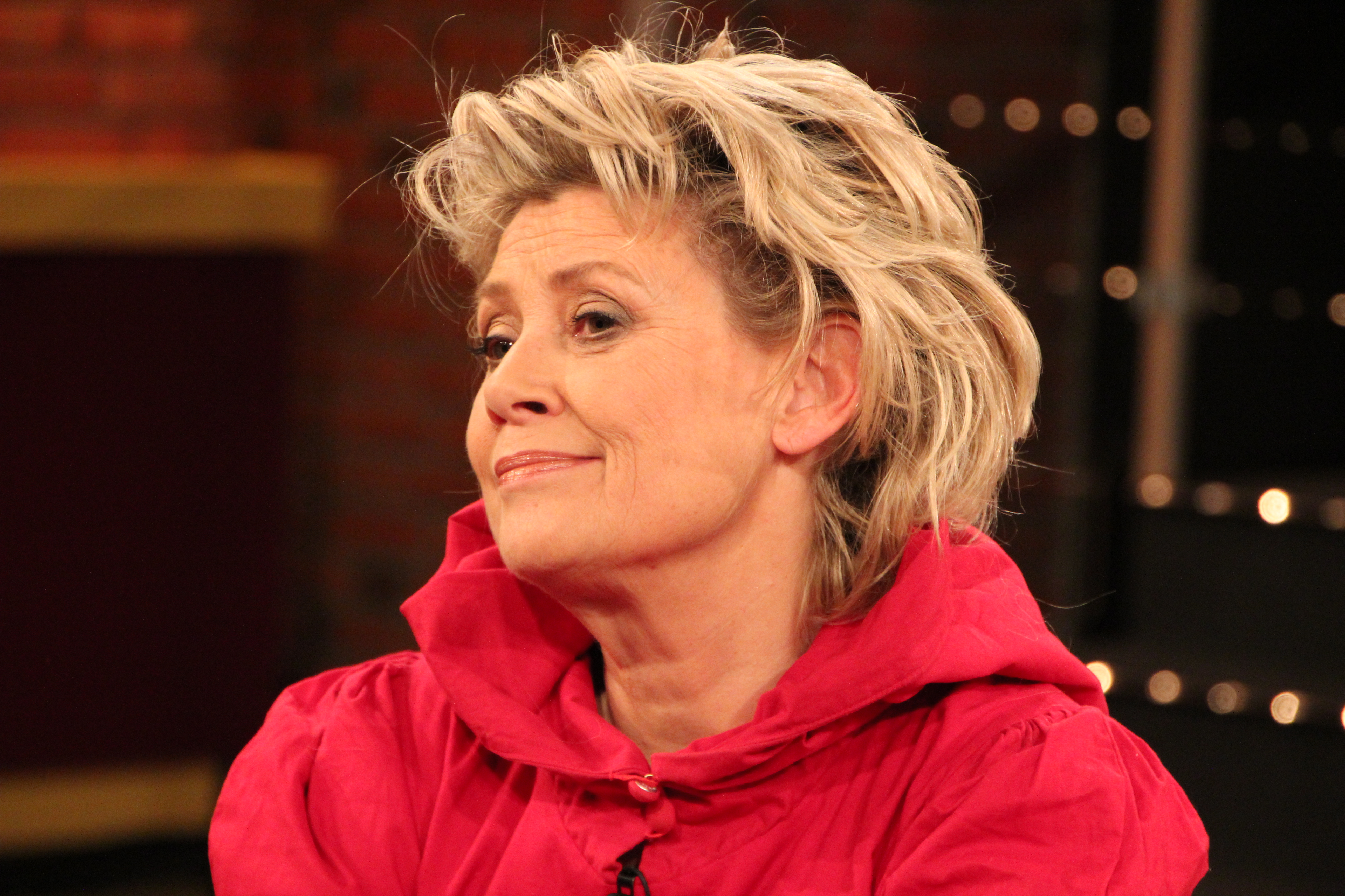 Gitte_Hænning 2010 Pop singer